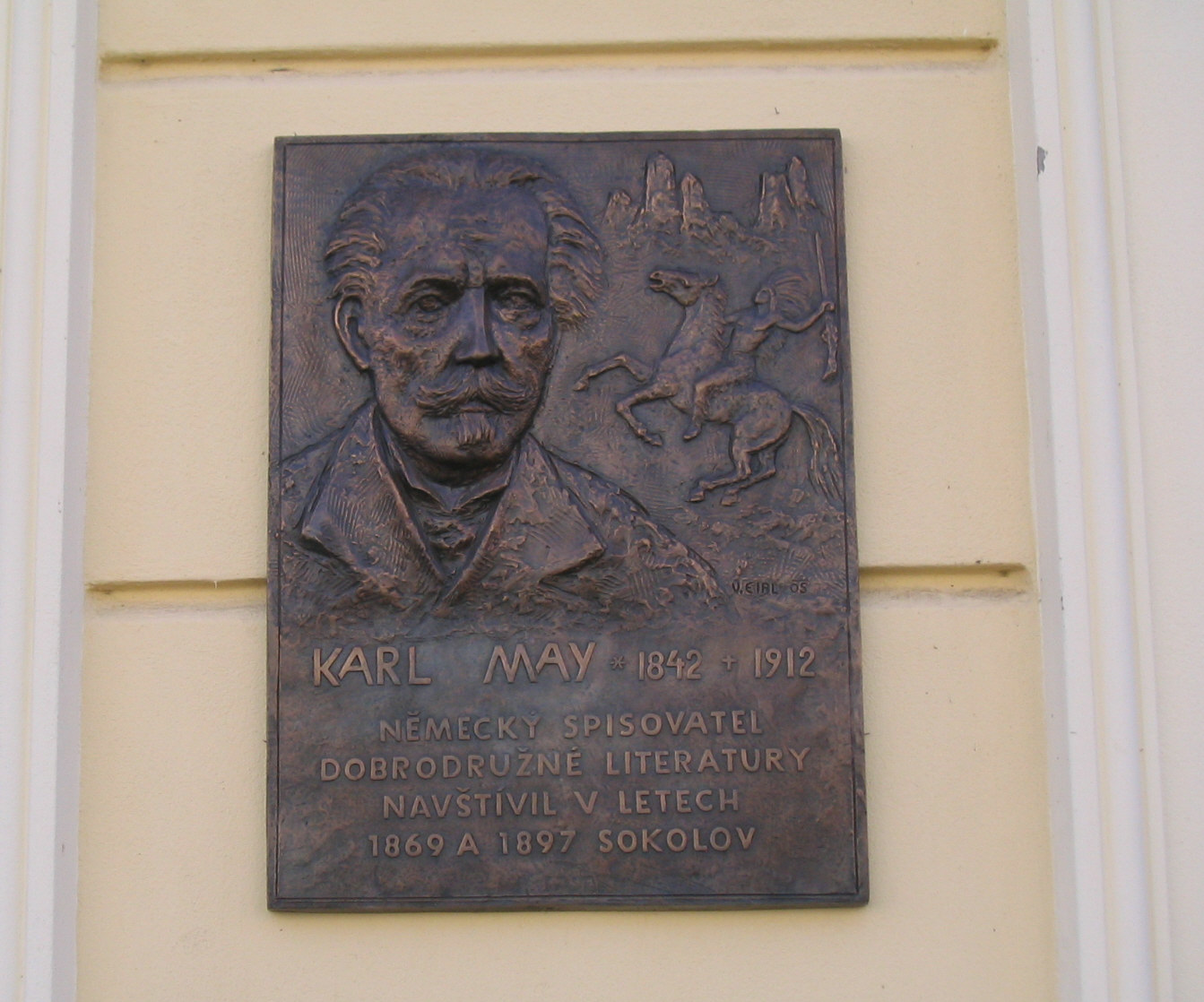 Plaque commemorating visits of German writer Karl May in Sokolov, Czech Republic.